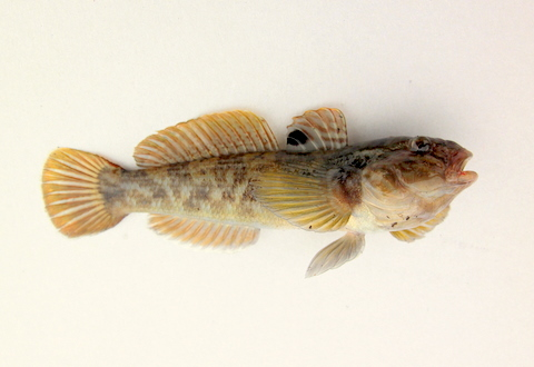 A gudgeon.